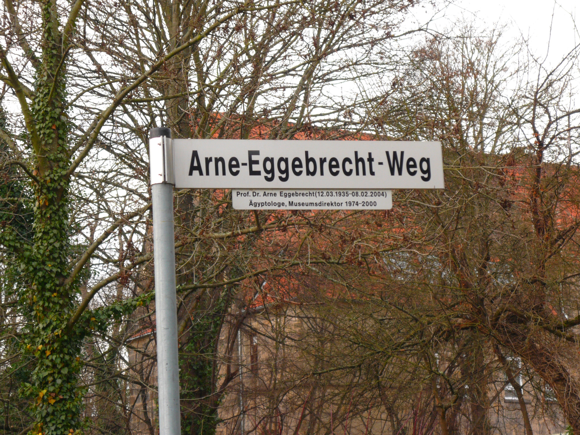 Way in Hildesheim named after the egyptologist Arne Eggebrecht.